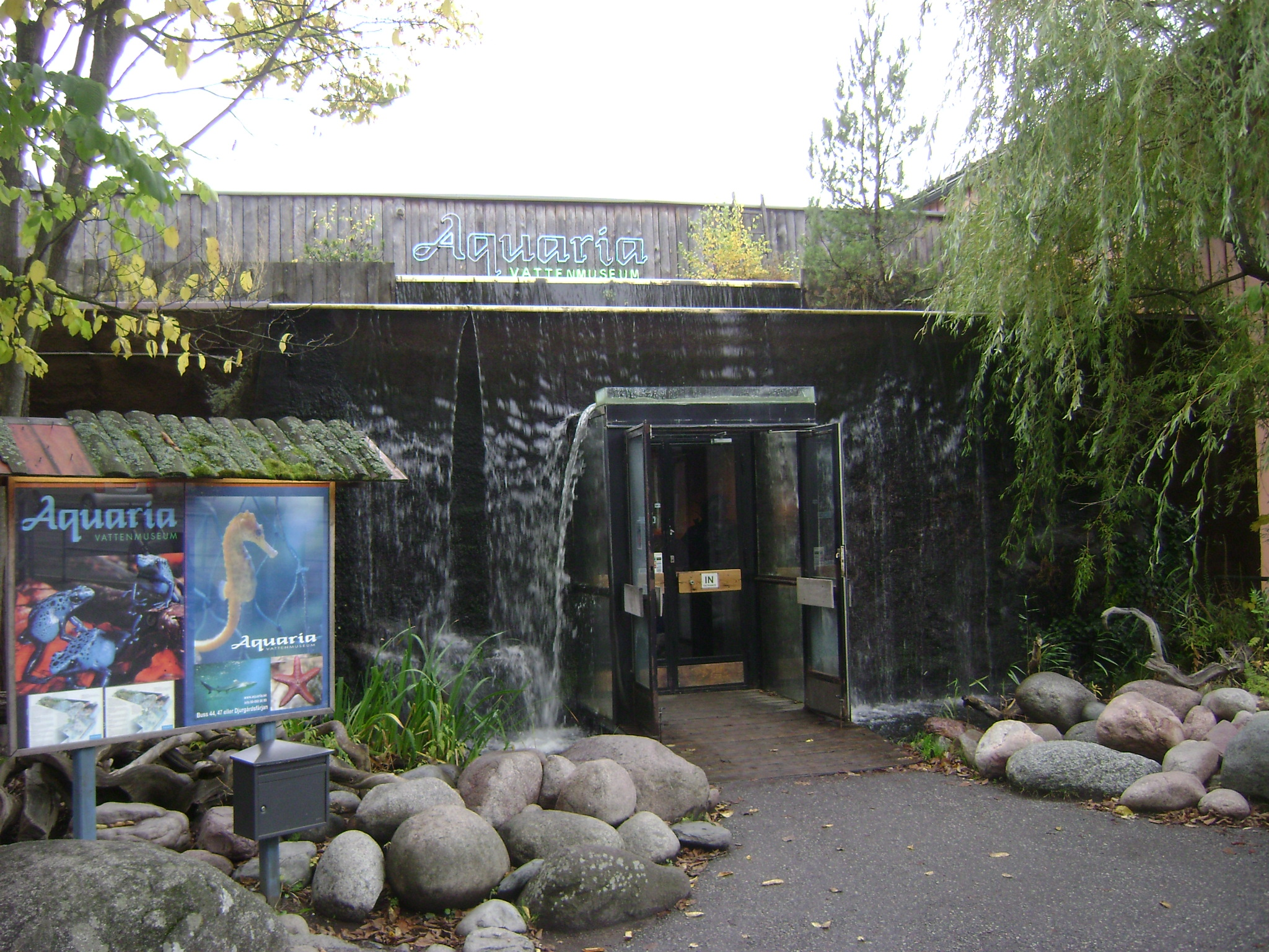 Sweden. Stockholm. Djurgården